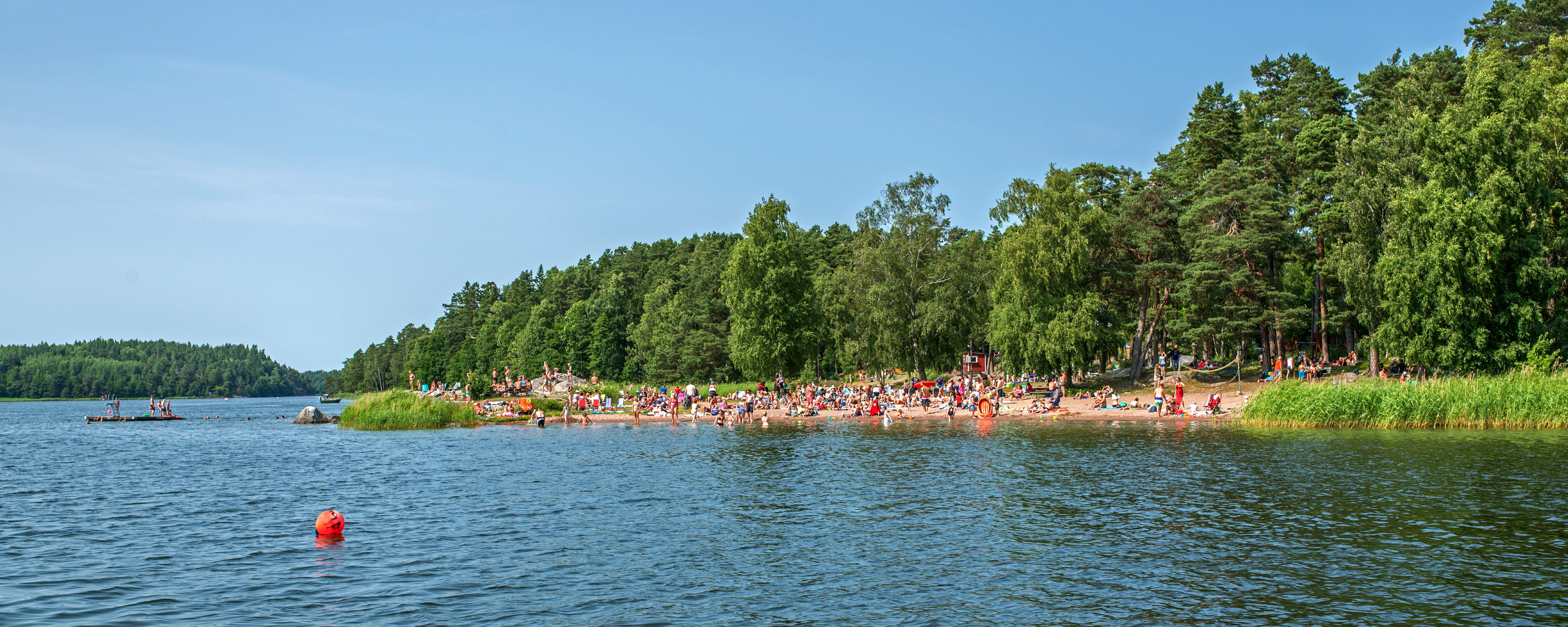 Vaxholm July 2013